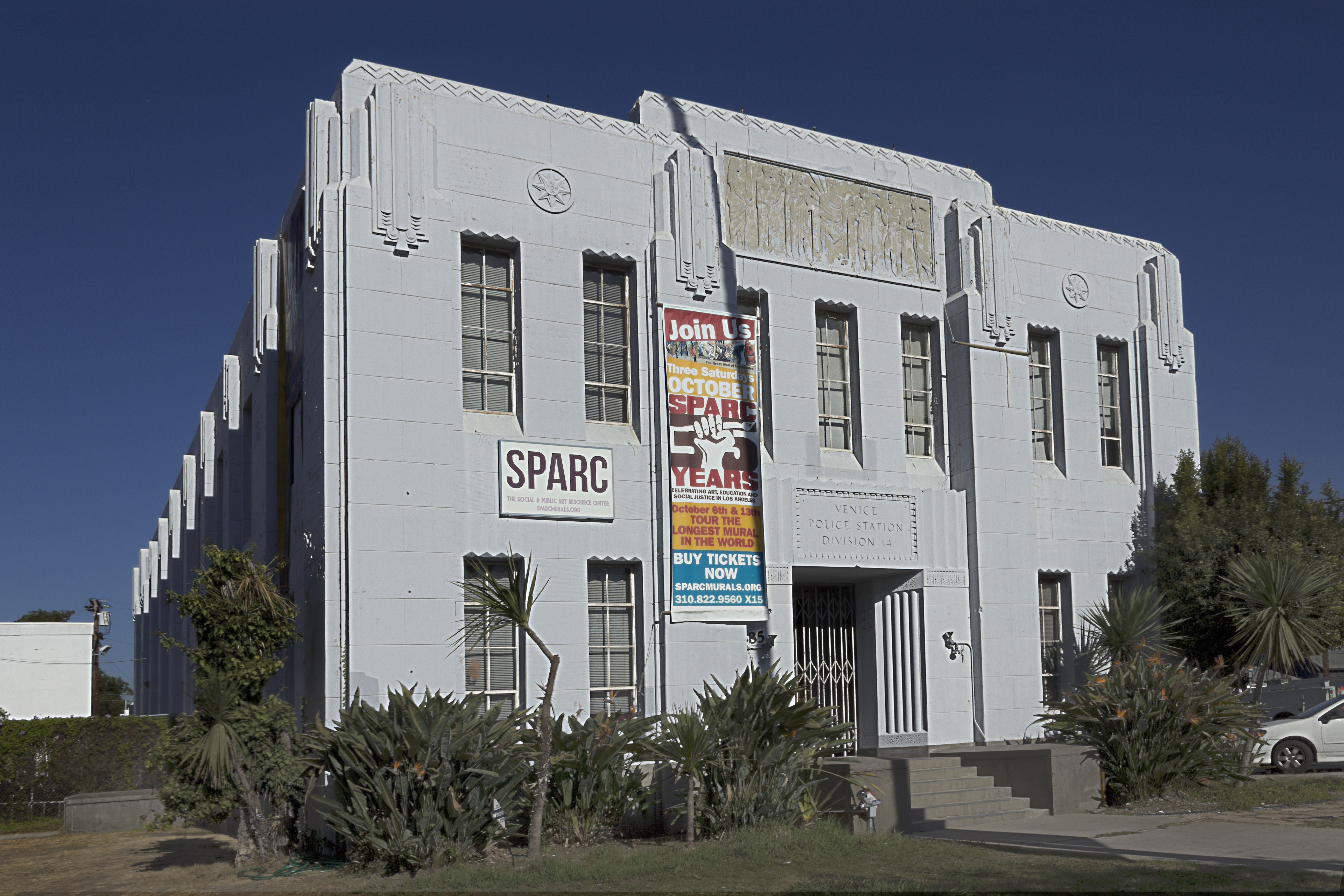 ©2012 Jeff Notte